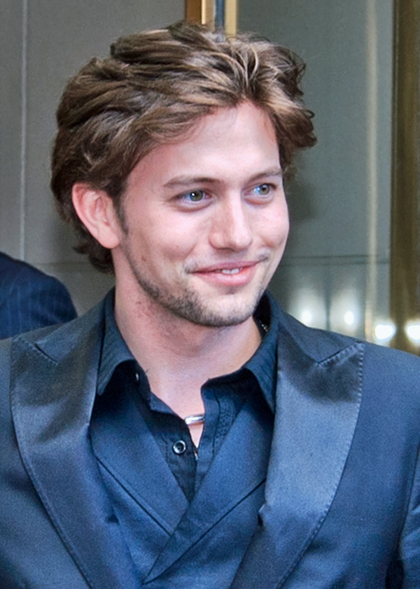 Jackson Rathbone at the 2010 Toronto International Film Festival.